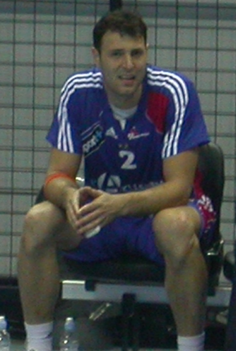 Jérôme Fernandez